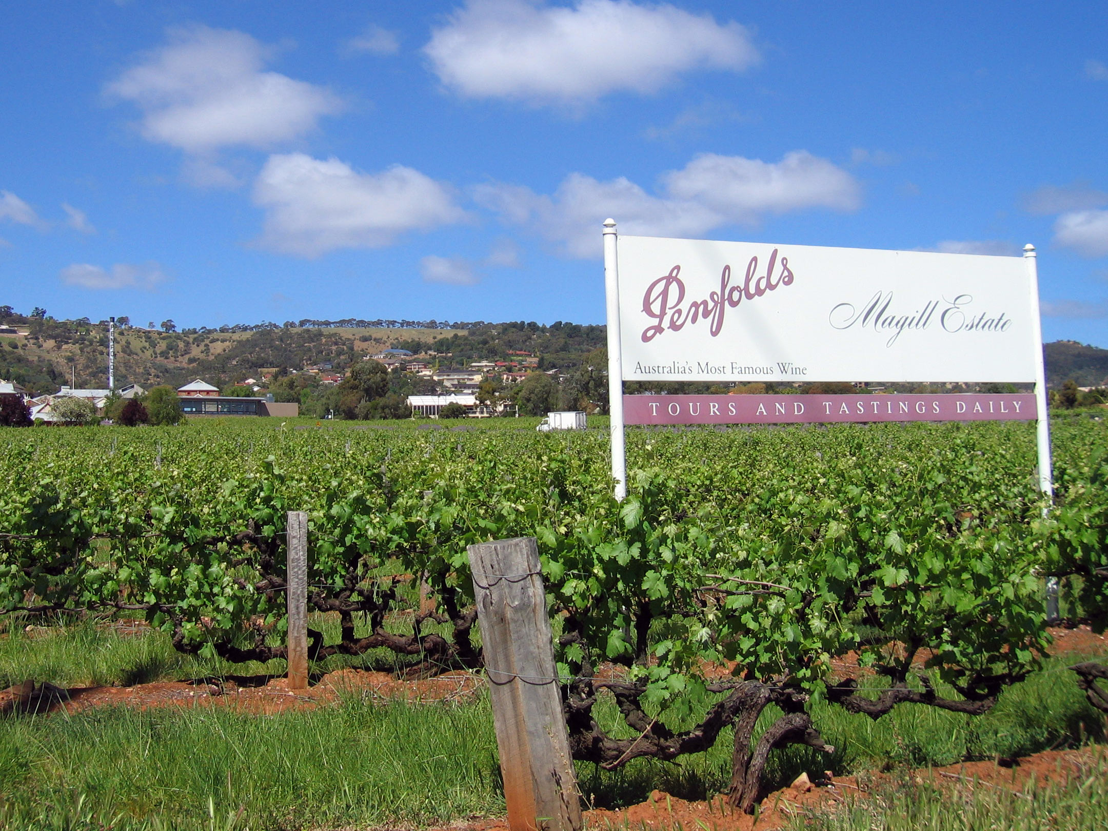 Penfolds winery, Magill Estate, seen from Penfold Rd. Taken by Shazdor on 29 Sept 2006.